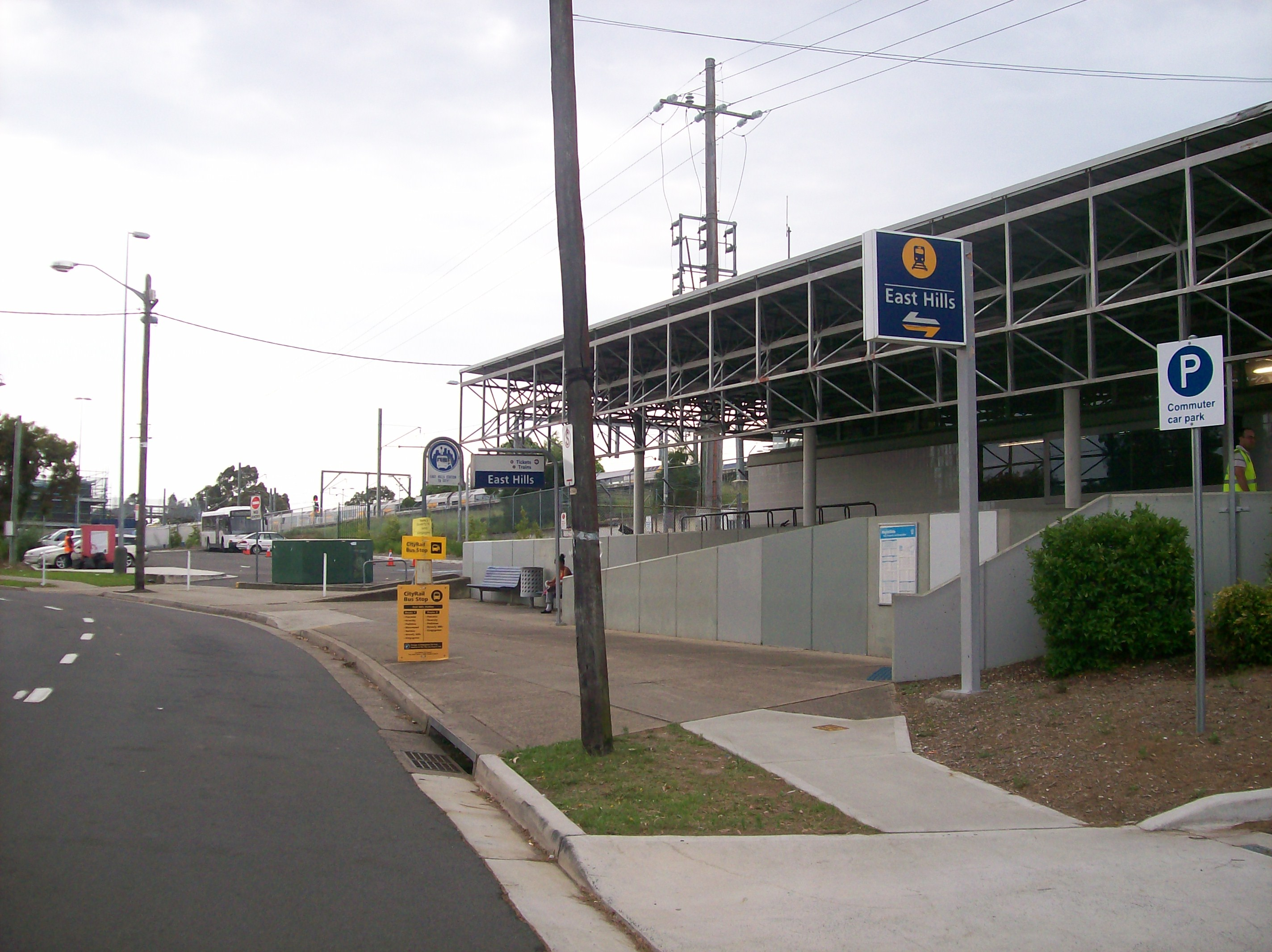 East hills station bus stop